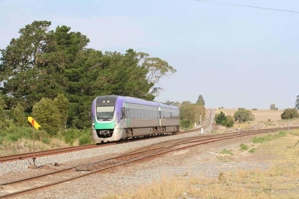 V/Line VLocity passenger train, at the former Warrenheip station, Ballarat railway line, Victoria, Australia